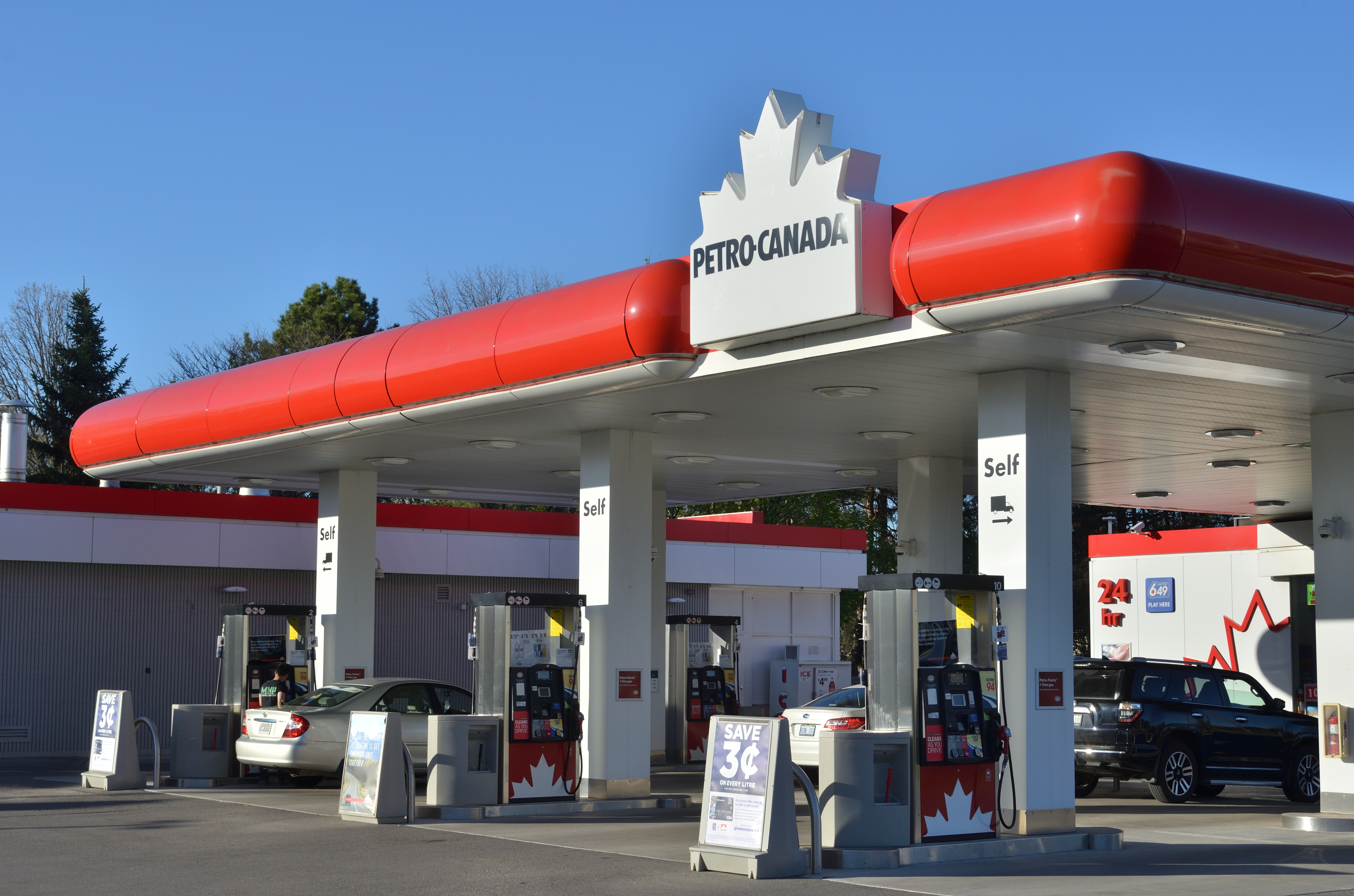 Petro Canada - Address: 4780 Hwy 7, Unionville, ON L3R 1M8